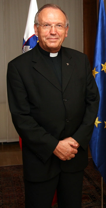 Anton Stres.